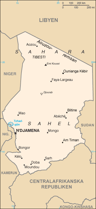 French map of Chad